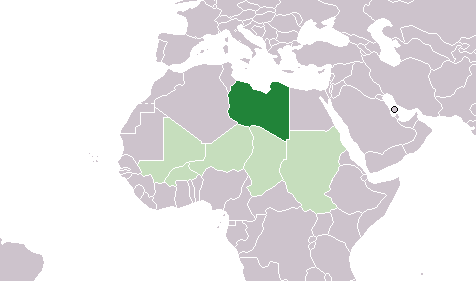 Libya and the five other original founders of Community of Sahel-Saharan States (Mali, Niger, Burkina Faso, Chad, Sudan) 1998